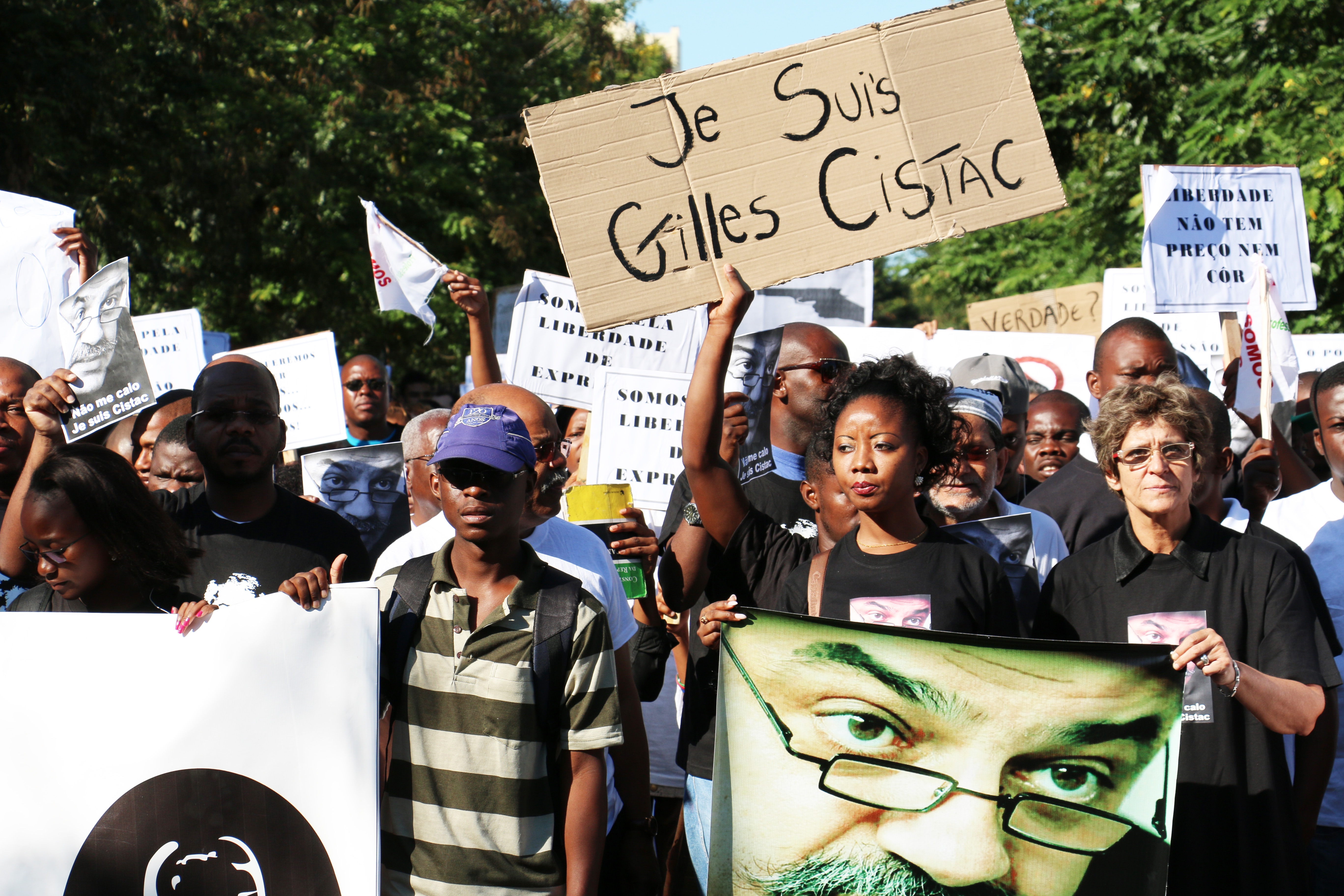 March in honour of murded lawyer Gilles Cistac in Maputo, Mozambique. In front Ivone Soares, RENAMO parliament group leader.